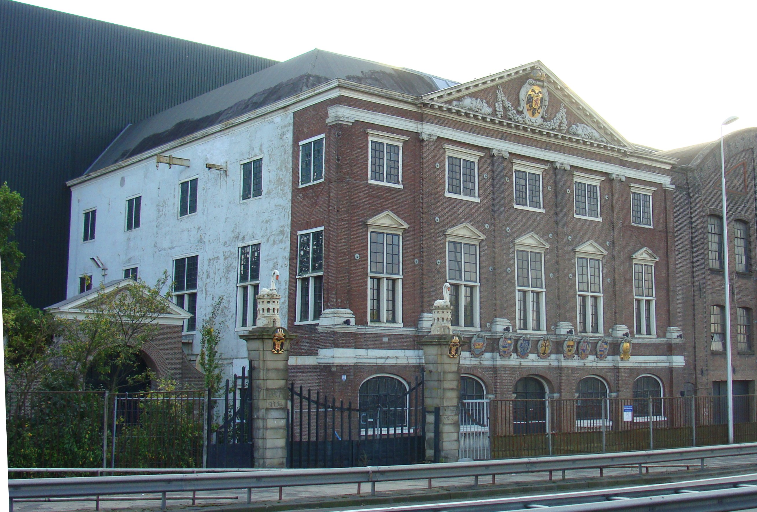 Huis Zwanenburg or Huis ter Hart, former "gemeenlandshuis" of the water board of Rijnland, in Halfweg, the Netherlands (between Haarlem and Amsterdam). The front shows the coats of arms of the members of the Board (Dyckgraef ende hoochheymraeden van Rynlandt).